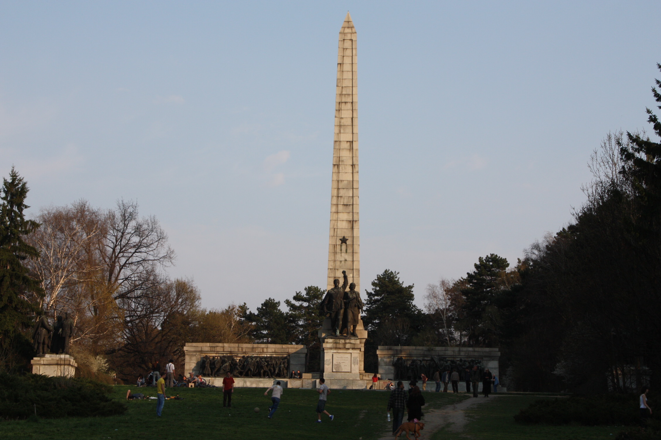 Statues and monuments in Sofia, Bulgaria